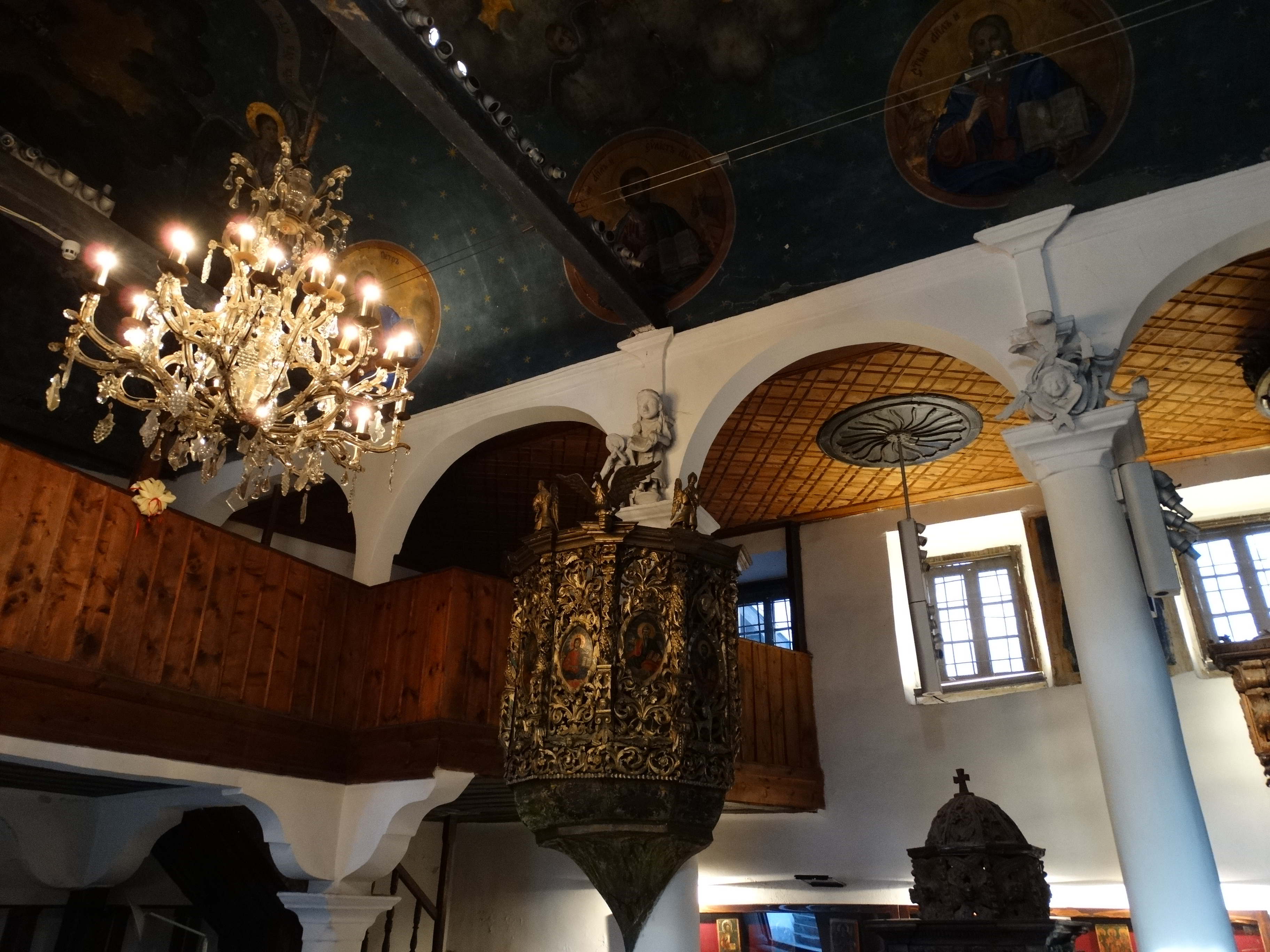 Interior of Sveti Spas Orthodox Church - Old Town (Carsija) - Skopje - Macedonia